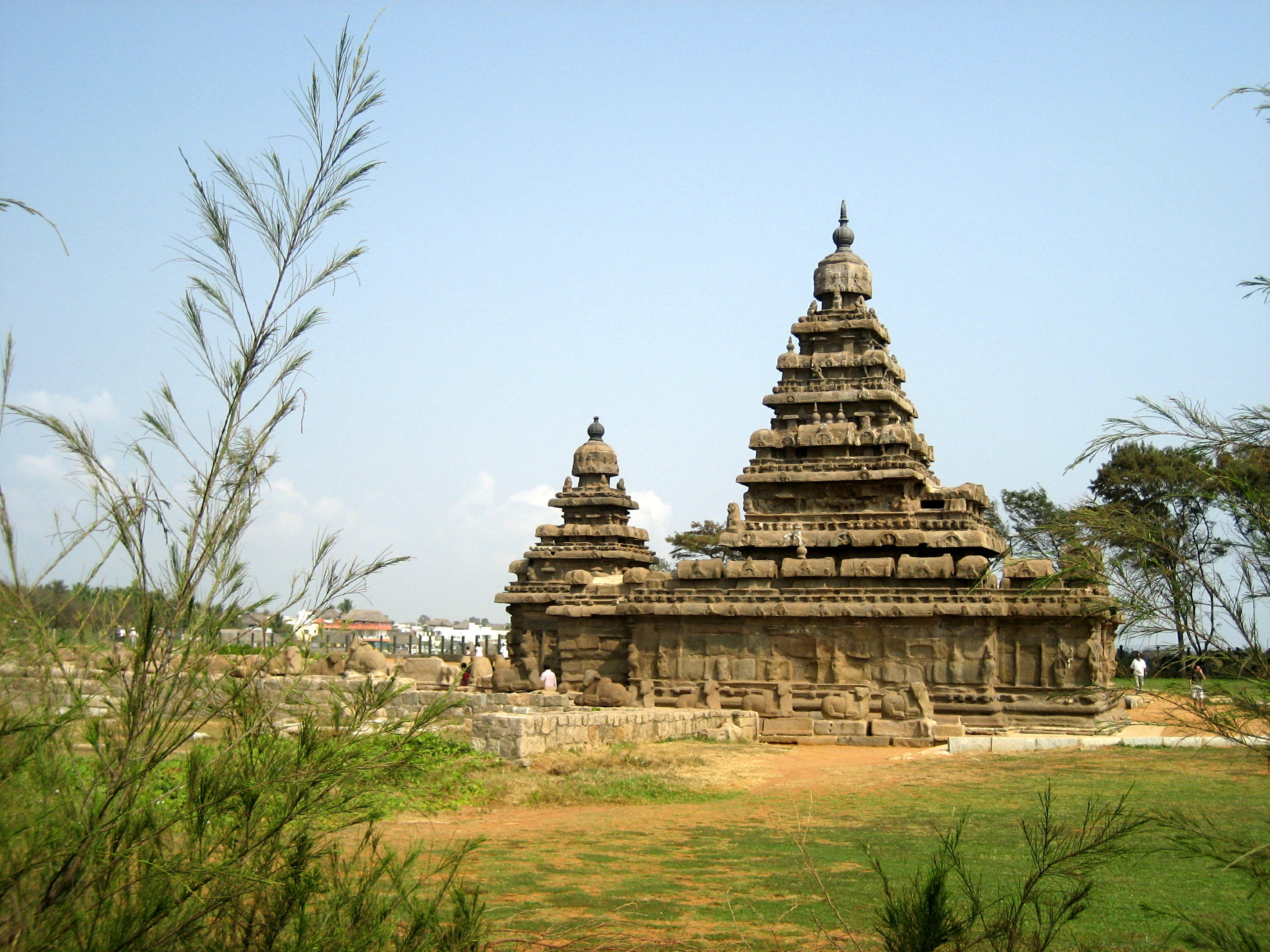 Shore Temple_Mahabalipuram_Tamil Nadu